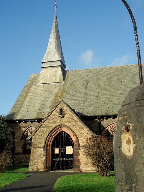 Spire and south porch of St Stephen's parish church, Moulton, Cheshire